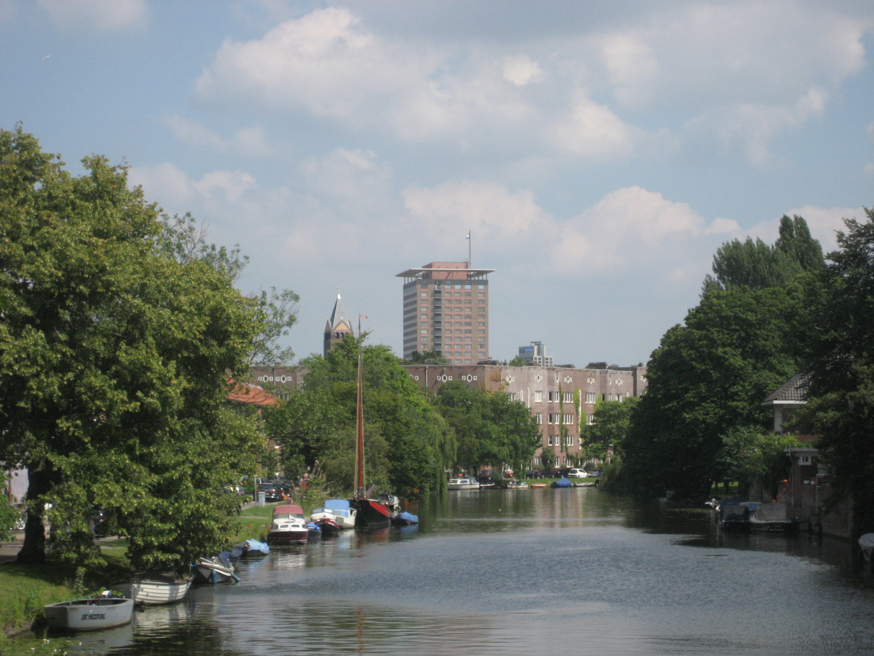 Okura Hotel, Ferdinand Bolstraat 333, 1072 LH Amsterdam (The Netherlands), from a distance